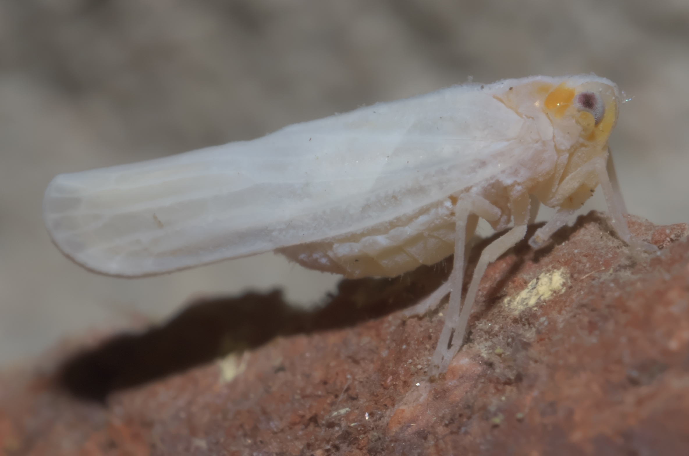 Neocenchrea heidemanni, Family: Derbid Planthoppers, Size: 7.4 mm, ID Confidence: 90